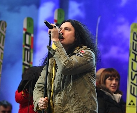 Piotr Cugowski during Adam's Bull's Eye on 26 March 2011 in Zakopane.